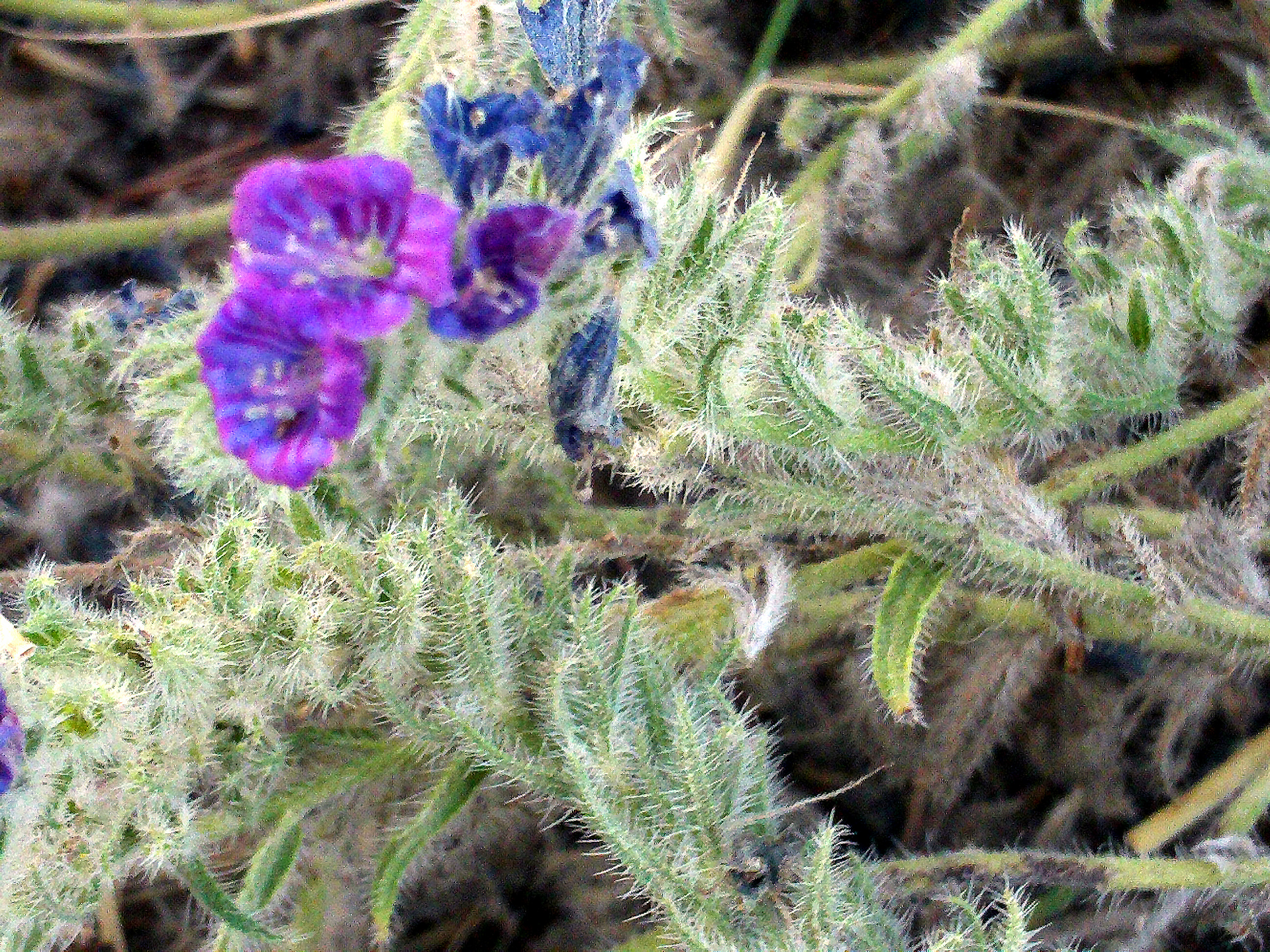 Echium sabulicola Close up in Parque Natural de las Lagunas de La Mata y Torrevieja Spain